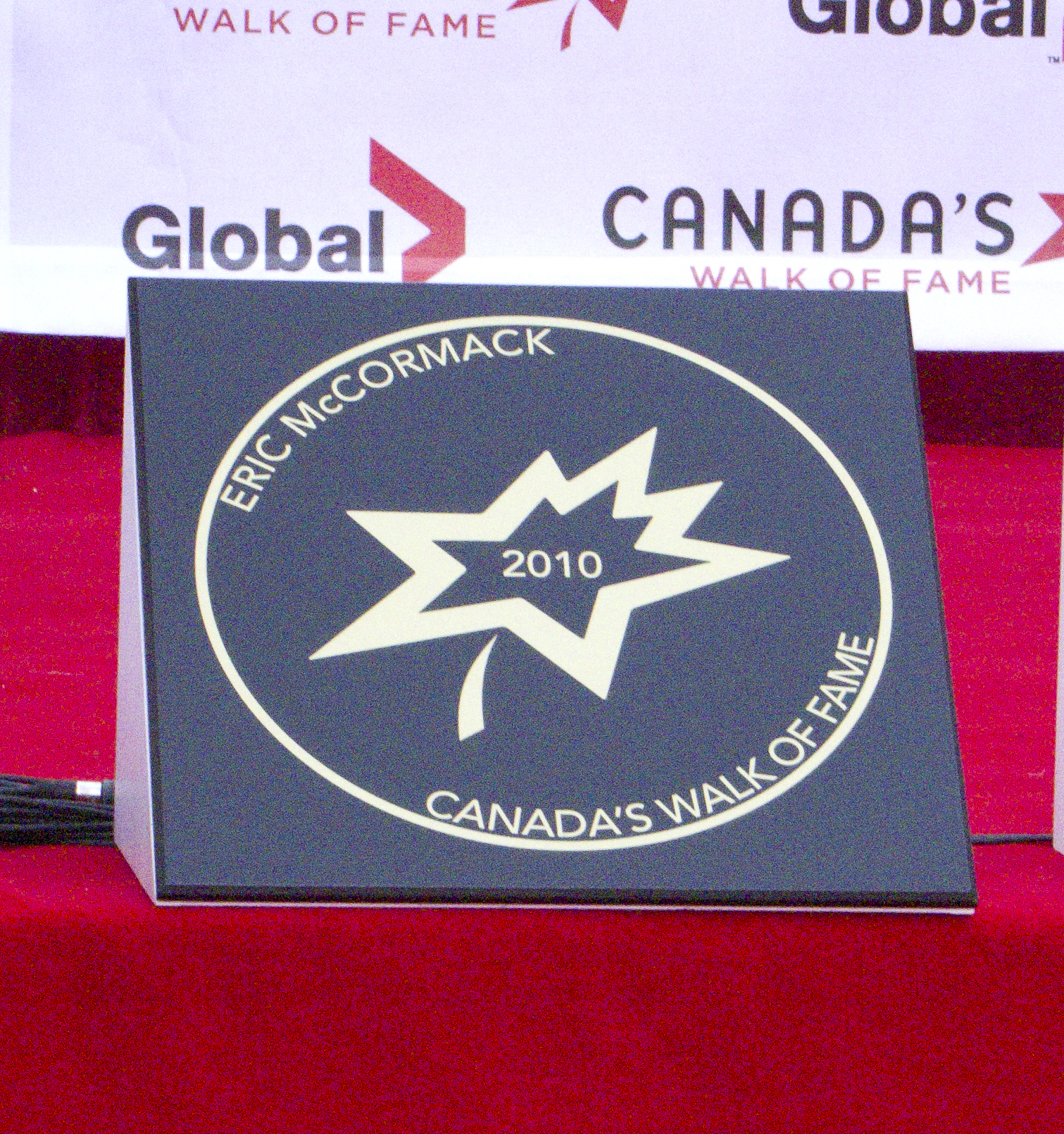 The star for actor Eric McCormack, displayed at the induction ceremony on Canada's Walk of Fame